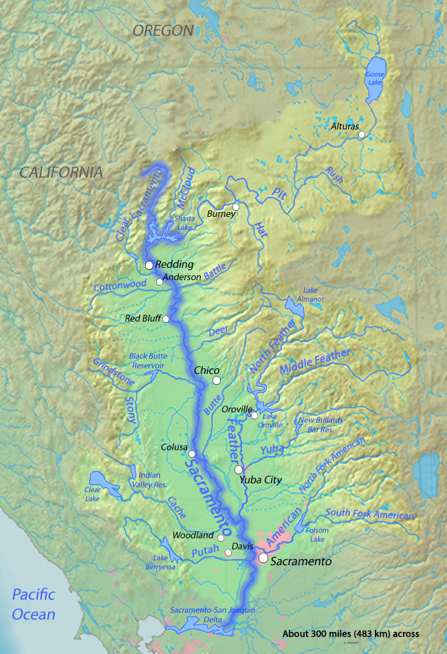 Map of the Sacramento River, California's largest and most important river. Intended as a useful addition to the article on the English Wikipedia, because a very simple map already exists.